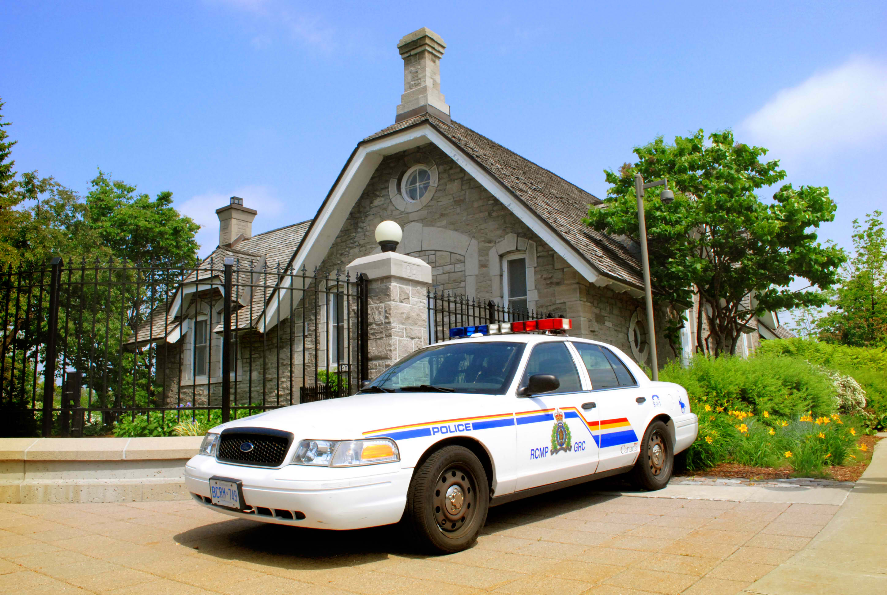 A RCMP Crown Victoria with Ontario license plates in Edinburgh, Ottawa, Ontario.